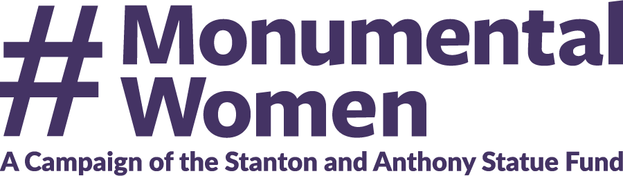 logo of monumental women